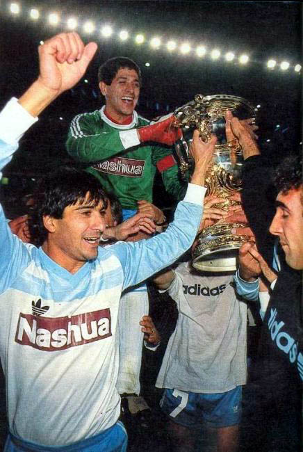 Racing Club players (with goalkeeper Ubaldo Fillol on the top) with the 1988 Supercopa Libertadores won to Brazilian team Cruzeiro, in Belo Horizonte.